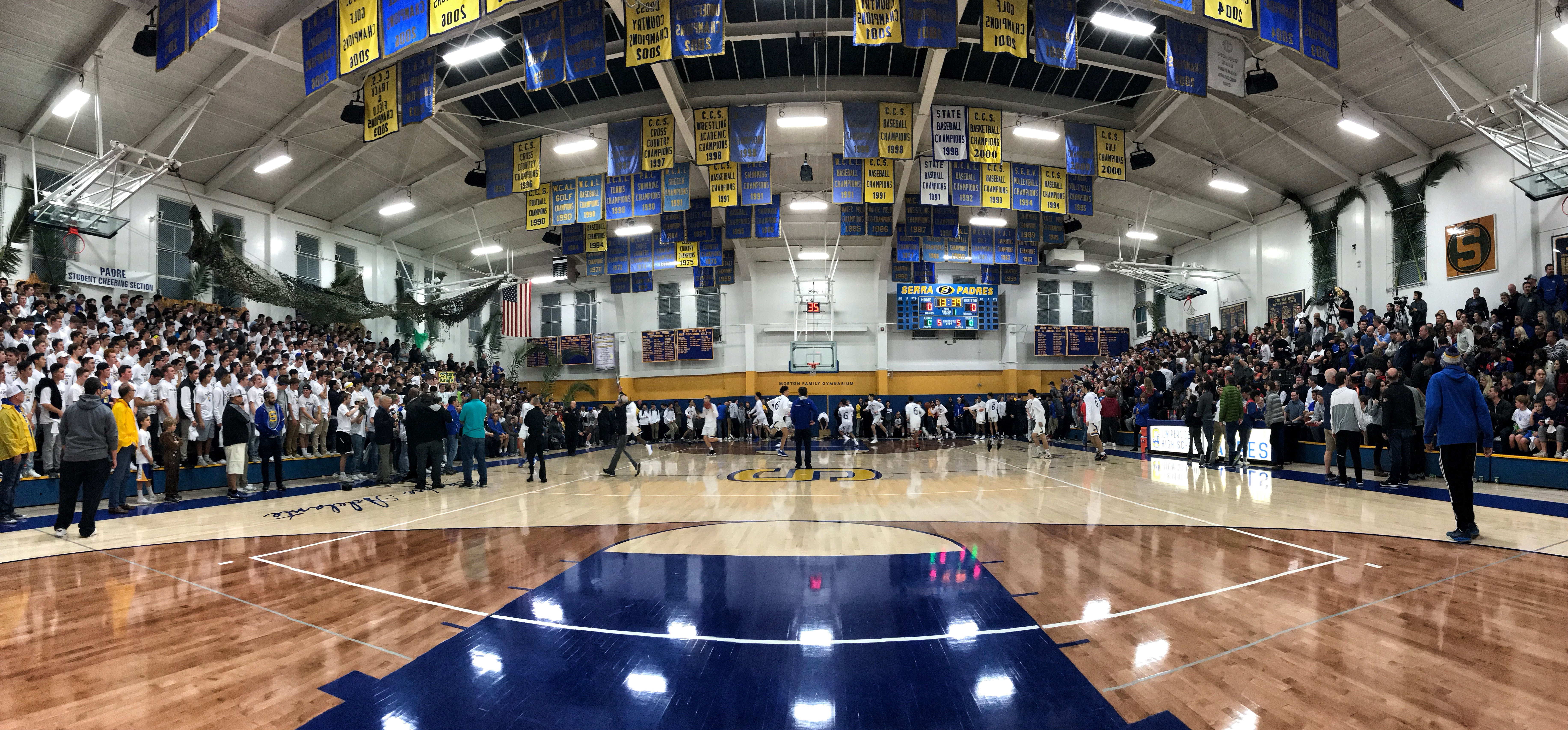 Morton Family Gymnasium at Serra High School